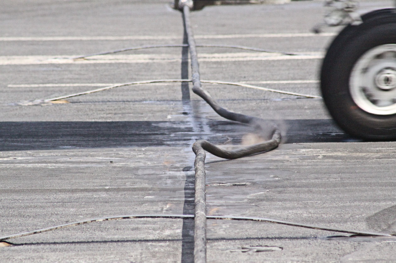 Instantaneous deformation of the Cross Deck Pendant (3-wire) by the nose gear of an FA-18 Hornet as it lands and passes over the wire at 135 knots aboard USS Harry S. Truman (CVN-75) in Sept 2009. Photo by Pinch.